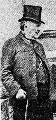 Thomas Halliday at a miners' conference in 1909, former leader of the Amalgamated Association of Miners